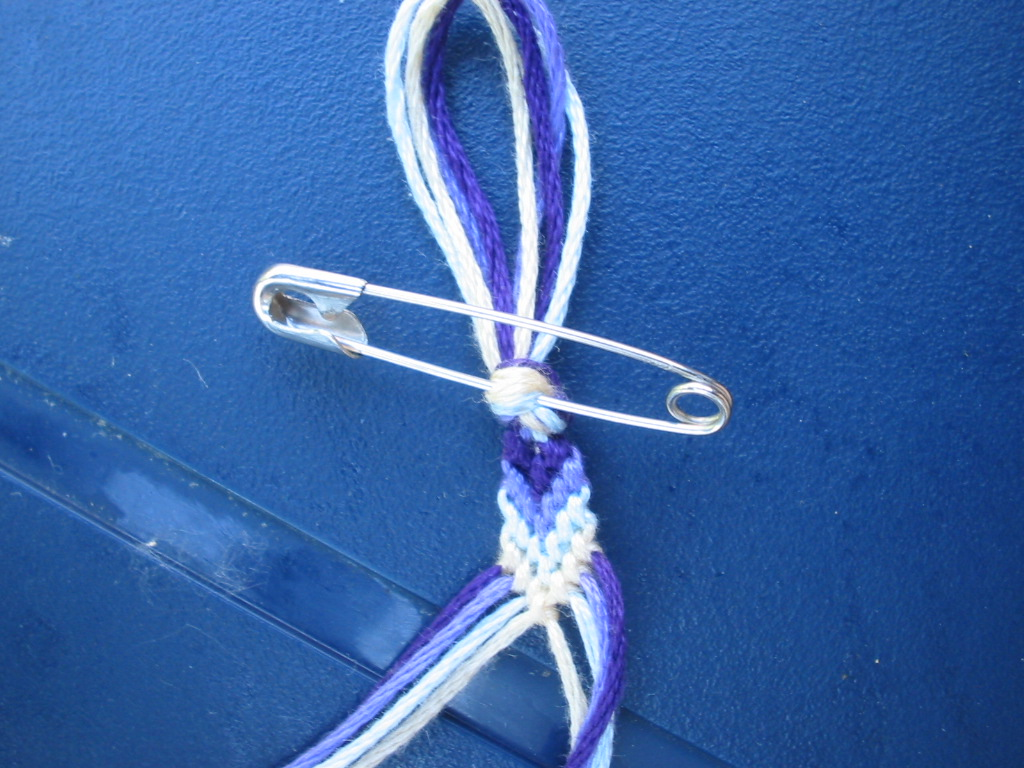 The main knot, pierced by a safety pin, and the first few pattern knots of a friendship bracelet. Original caption: And so the madness beginn ...The beginning